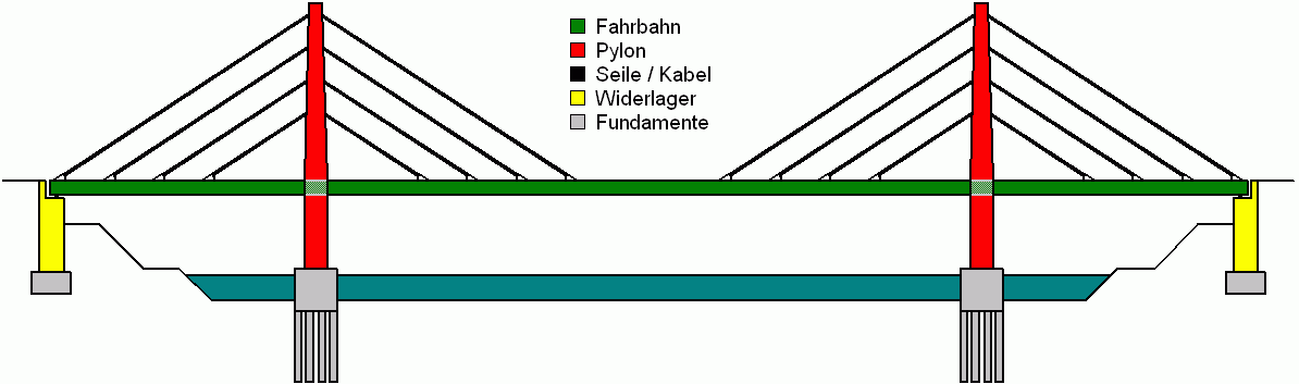 a pattern of an cable-stayed bridge, description in german